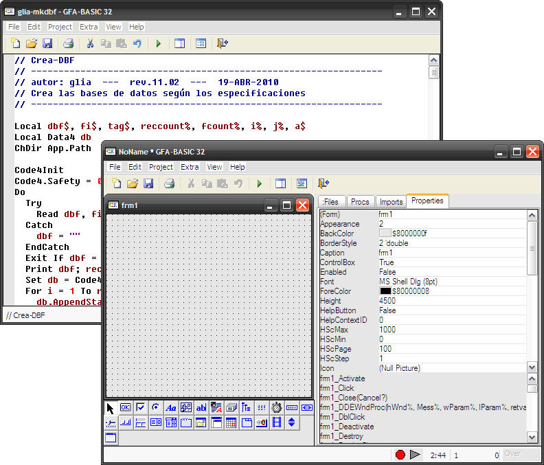 Screenshot of a program listing and screen editor using Gfa-BASIC (GB32) an abandonware BASIC compiler, under Windows XP